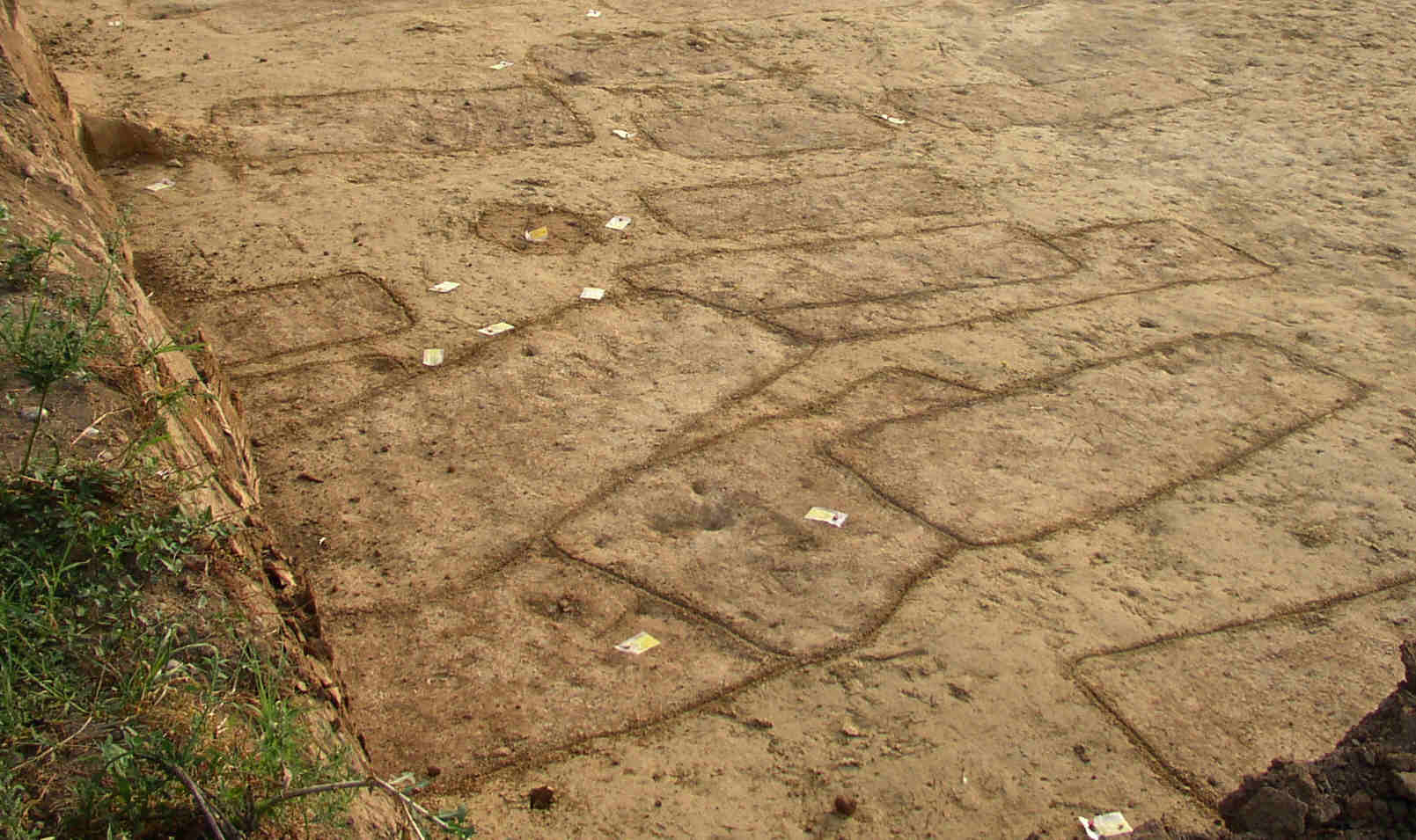 Graves before their excarvation. Alamannic graveyard at Behans near Sasbach am Rhein, Germany of the 6th and 7th century.